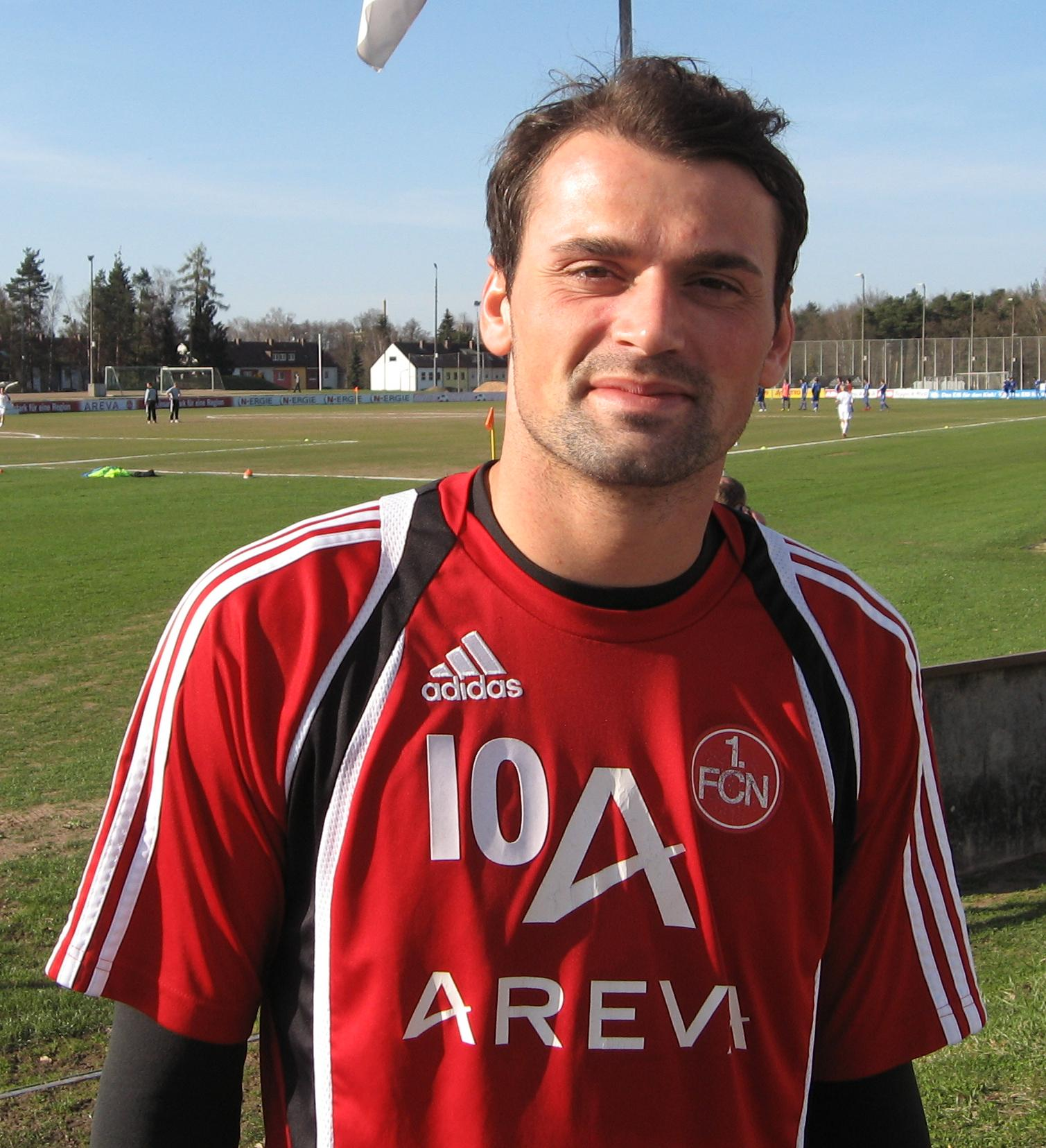 Albert Bunjaku, player of 1. FC Nürnberg.